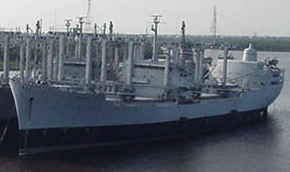 Photo of the Courier, retrieved from PMARS on 9-6-2008, one of three pics, this appears to be the most current. The picture was cropped from Courier picture #3 of 3 to bring it to 290px and remove other ships from the frame, the name of the ship is barely visible under the bow, the same label appears in news coverage of the storm related dismoorings in NOLAs Industrial Canal. PMARS Ship Record Miramar Ship Index Record